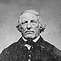 The only known image of Samuel Wilson, meat-packer from Troy, New York, whose name is purportedly the source of the personification of the United States known as Uncle Sam.